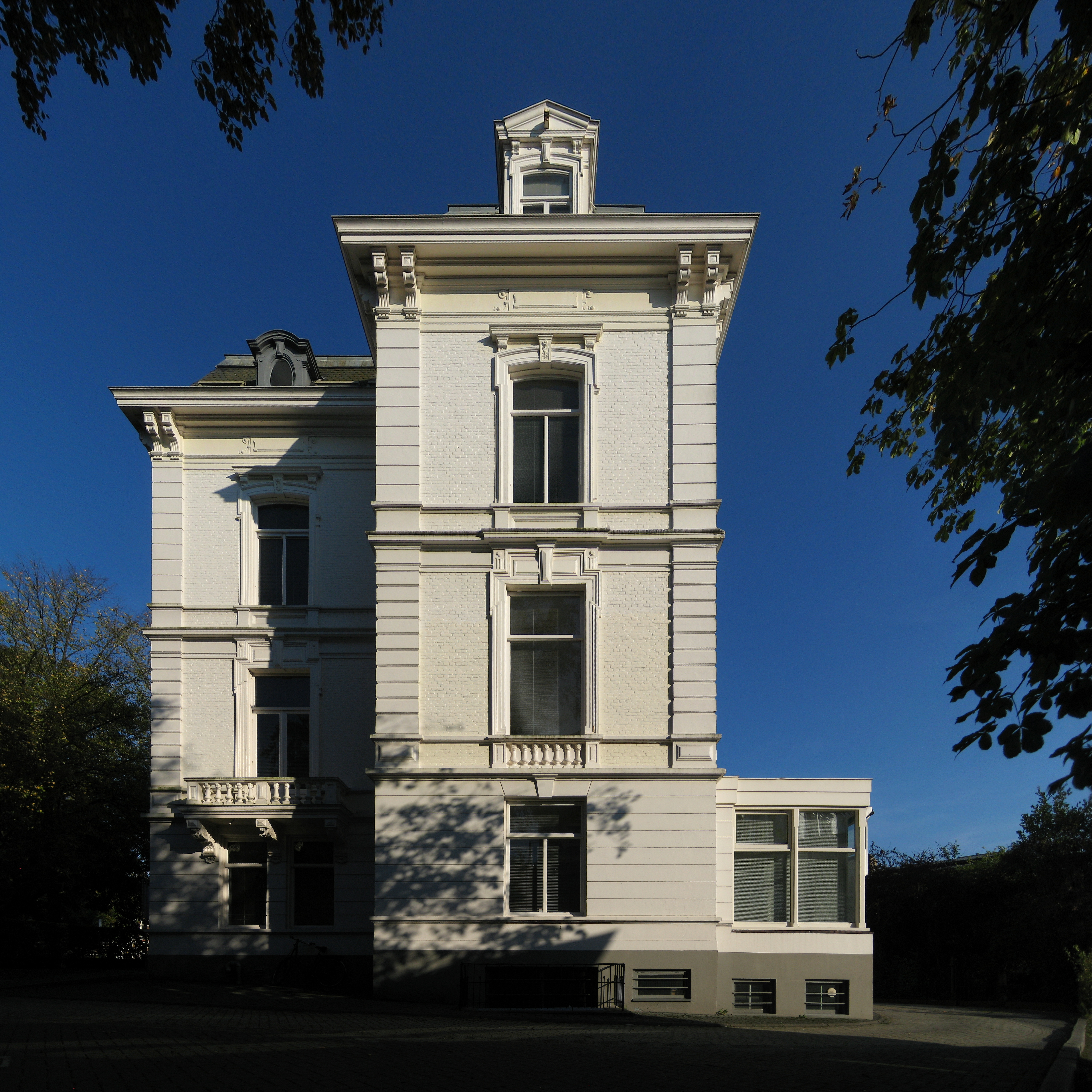 Double villa (1882) in the Dutch city of Groningen.